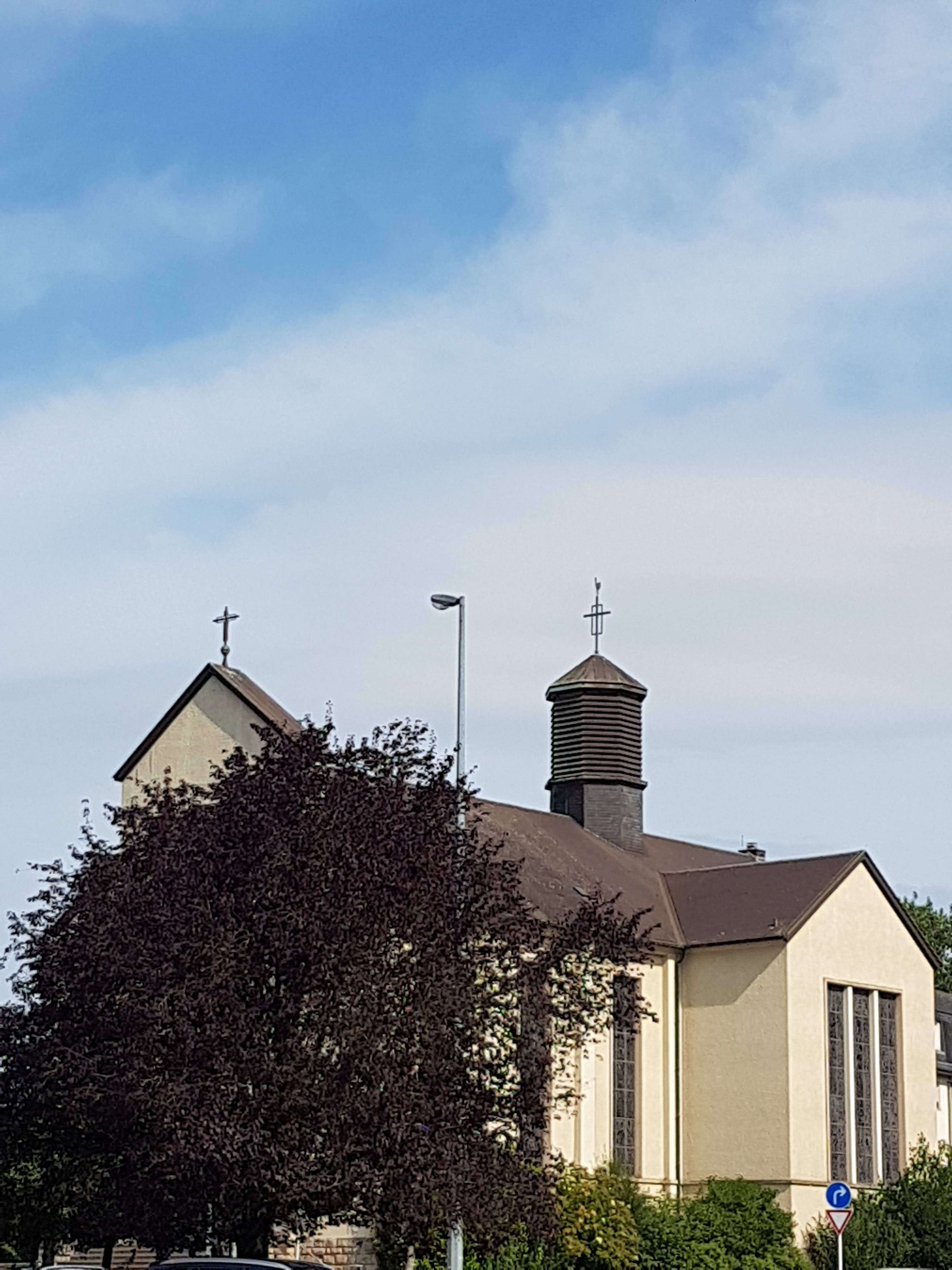 The Roman Catholic Church Marie-Reine du Monde (Eng.: Mary Queen of the World, also Luxembourgish: Kierch Esch-Lalleng) is located in the municipality of Esch-sur-Alzette, in the district Lallange, in the Grand Duchy of Luxembourg.